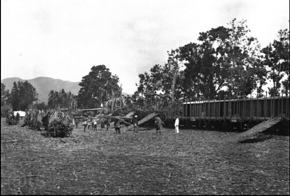 Reed drawers on the Patikraja yard (km 21 + 300)